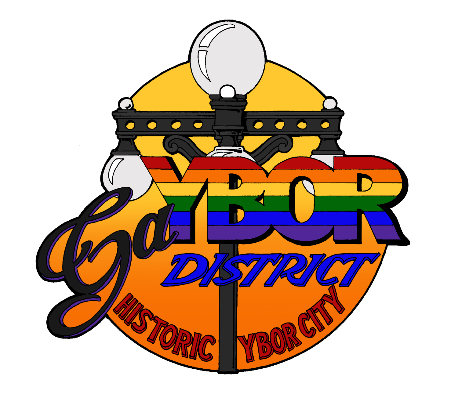 1st Official GaYBOR Bead Medallion used 2010-2011